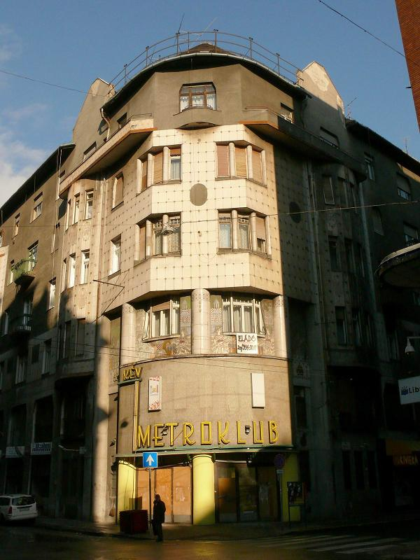 The former Arcade Market in the Dohány Street Budapest